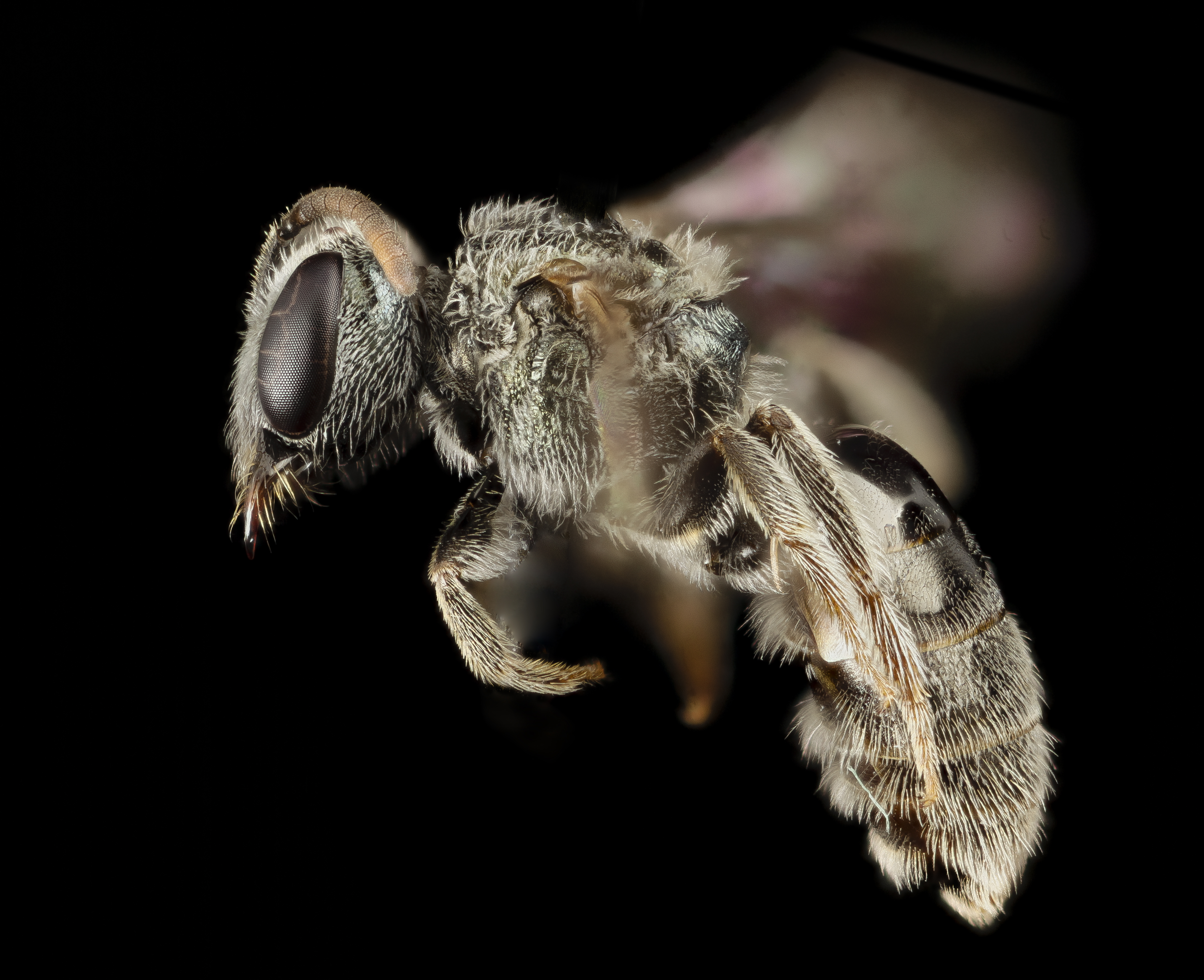 Here is a little tiny nest parasite, Lasioglossum simplex, that parasitizes one of its sister taxa (likely L. trigeminum). While it retains the overall look and feel of its pollen carrying upright relatives, it has no pollen carrying hairs and its mandibles lack the tooth at the end and instead are simple sabres... While we know a lot about birds that are nest parasites, we know almost nothing about the bees that are cuckoos. Collected by April Hamblin in the Raleigh area... 14:13, 26 March 2015 (UTC)14:13, 26 March 2015 (UTC) 0 14:13, 26 March 2015 (UTC)14:13, 26 March 2015 (UTC) All photographs are public domain, feel free to download and use as you wish. Photography Information: Canon Mark II 5D, Zerene Stacker, Stackshot Sled, 65mm Canon MP-E 1-5X macro lens, Twin Macro Flash in Styrofoam Cooler, F5.0, ISO 100, Shutter Speed 200 The grass so little has to do, A sphere of simple green, With only butterflies to brood, And bees to entertain, - Emily Dickinson Contact information: Sam Droege 301 497 5840